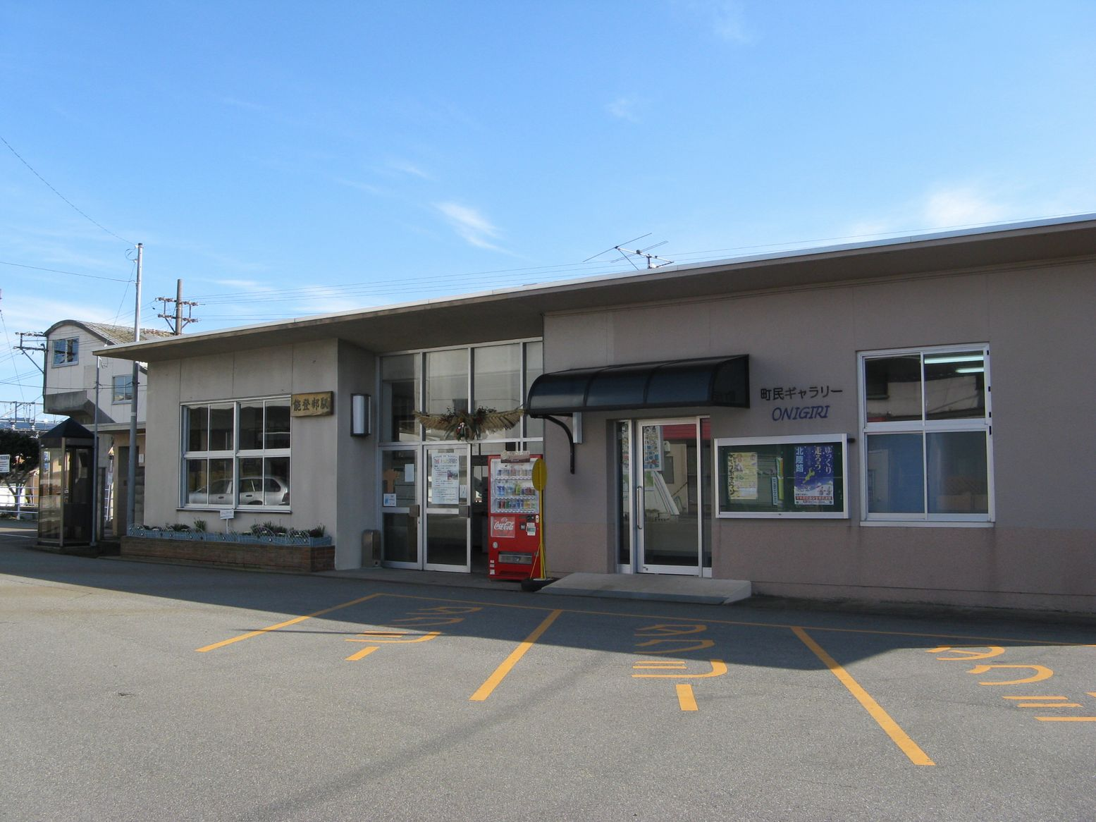 Notobe Station on the JR West Nanao Line, in the town of Nakanoto, Ishikawa Prefecture, Japan